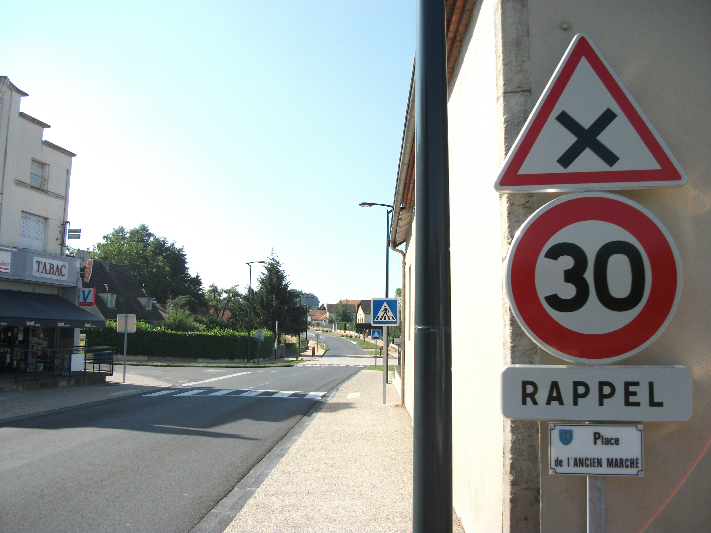 Intersection with right priority + maxspeed 30 km/h (reminder) on route nationale 209 in Billy towards Vichy [8586]